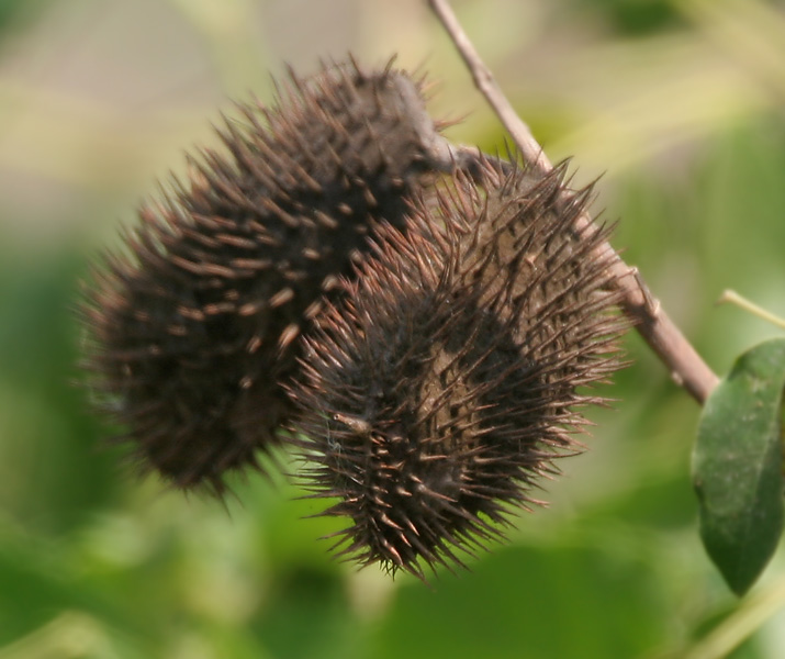 Gray nickernuts, Warri tree or Sagargota Caesalpinia bonduc in Krishna Wildlife Sanctuary, Andhra Pradesh, India.